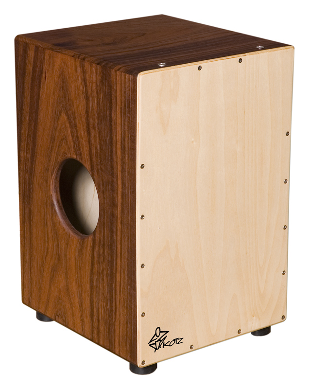 I took this photo of a Snare ToneCajon in my home on December 12th, 2005. A modern cajon, it incorporates 2 sets of snares (similar to what is used on a traditional snare drum) which press against the front playing surface. The deep and resonant bass tone contrasts well with the high tones played on the top corners. The loose top corners can be adjusted by tightening or loosening the screws on the face. The snare wires can be tightened or loosened for a "drier" or "wetter" sound by way of the two screws on the top of the cajon.